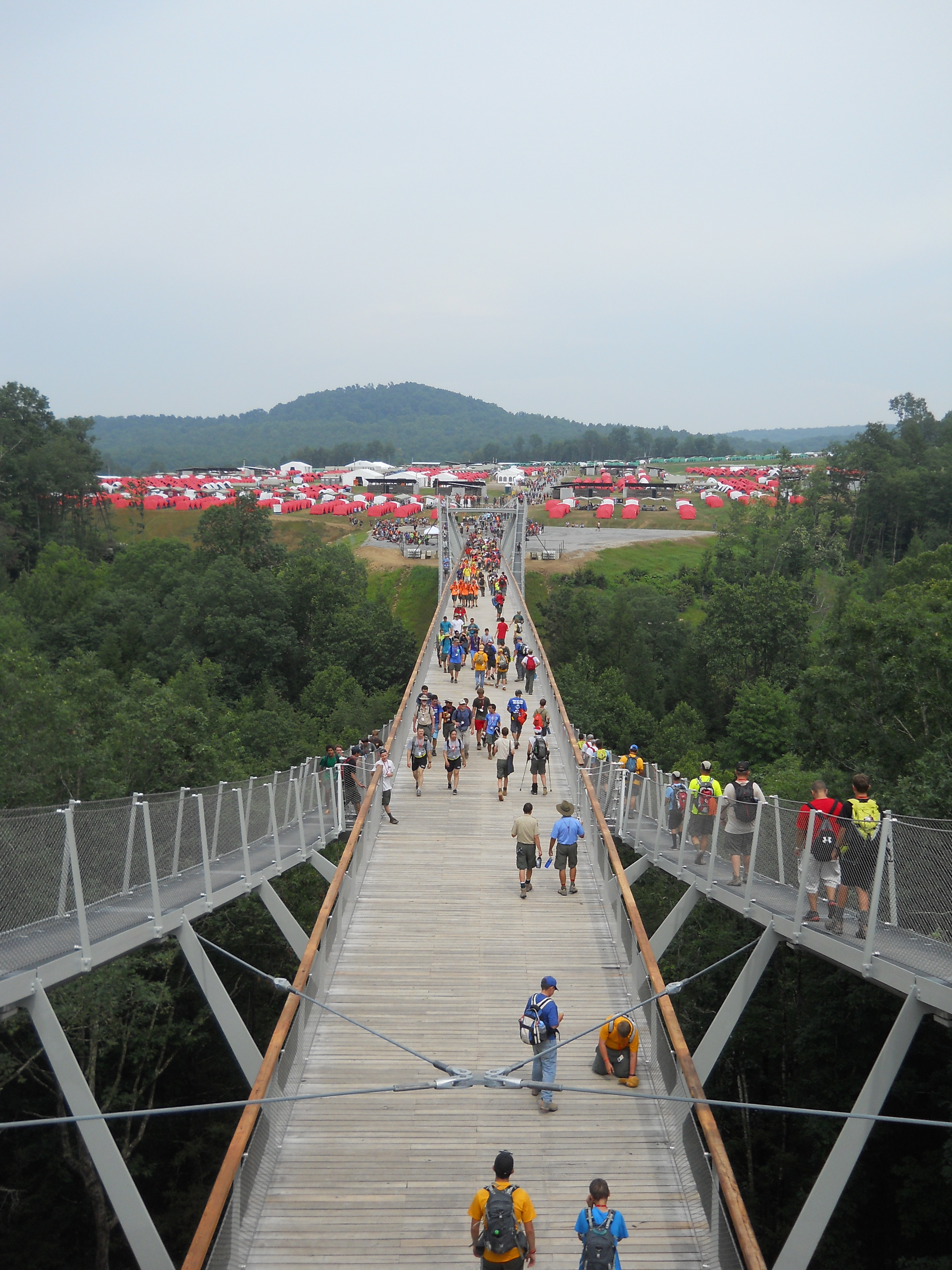 CONSOL Energy Bridge in West Virginia, a swaying bridge crossing a ravine at the Boy Scouts of America's 2013 National Jamboree